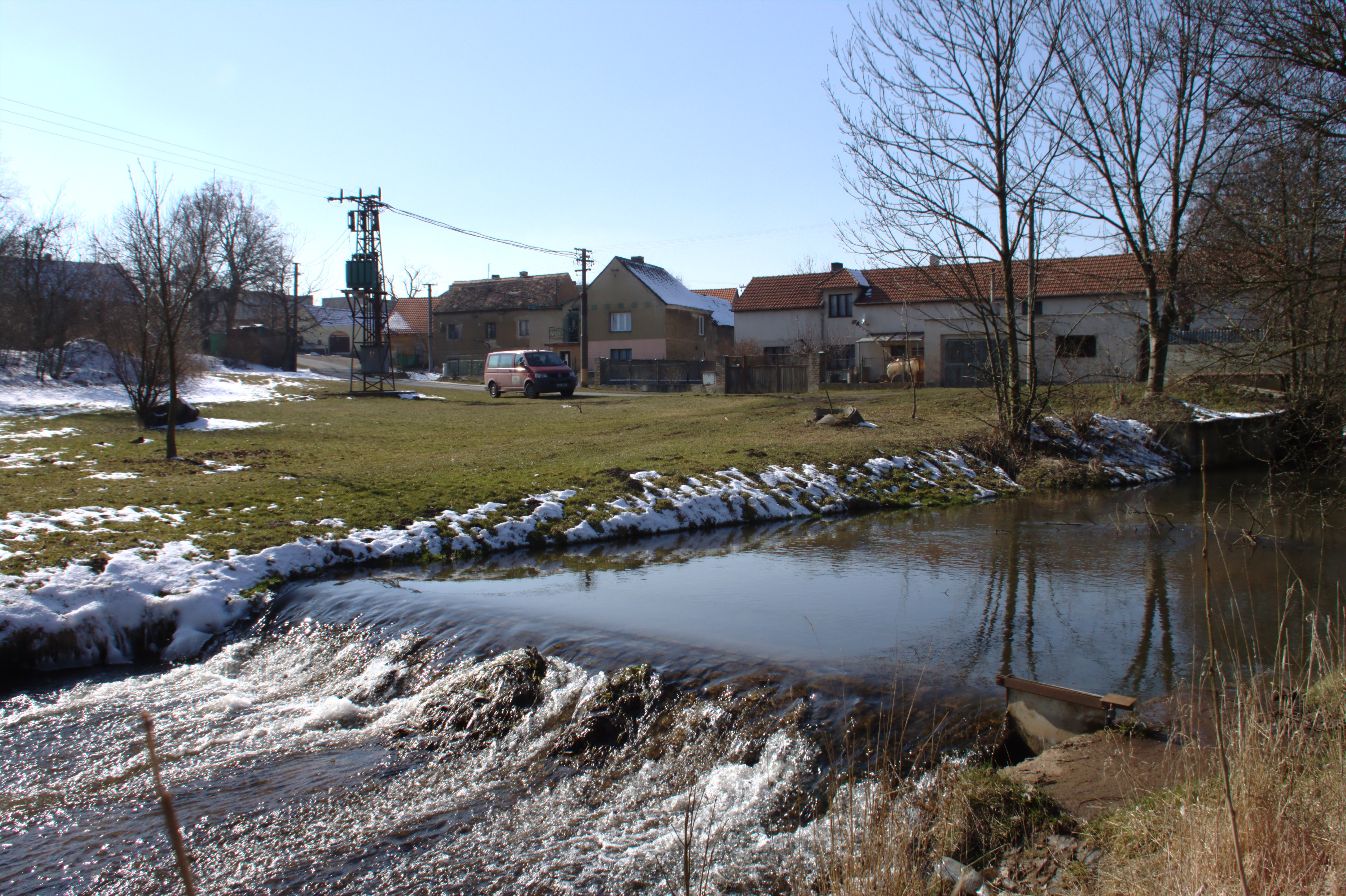 Zlonický potok Creek in Kobylníky, town of Klobuky, Kladno District, CZ